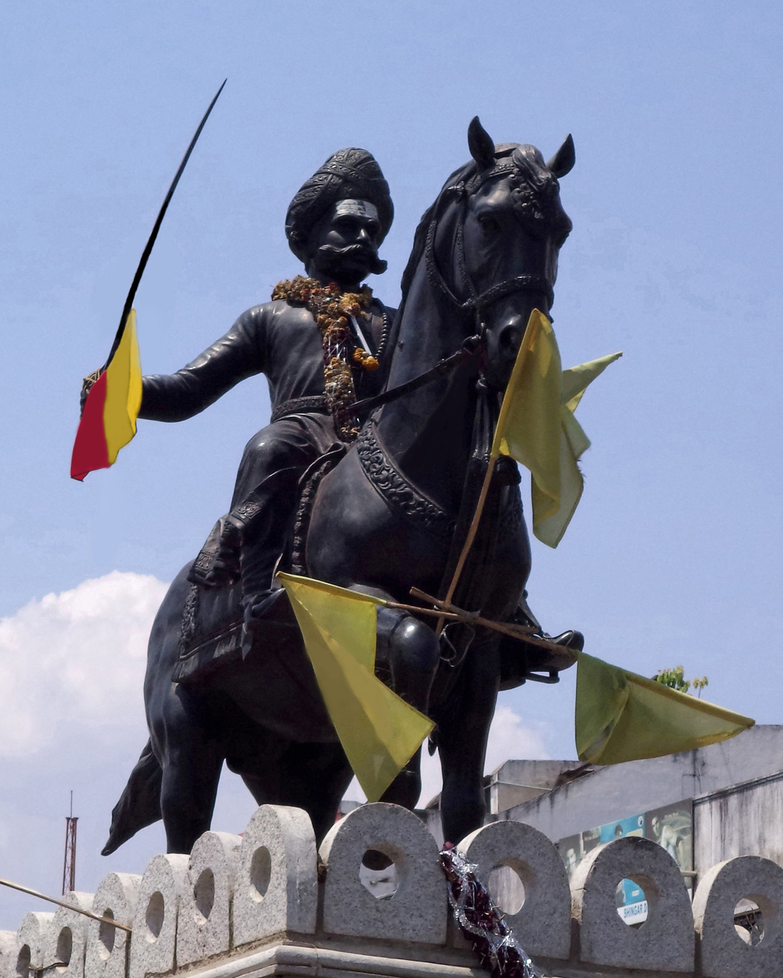 Statue of Keladi Shivappa Nayaka, the most celebrated king of the Keladi Nayakas.